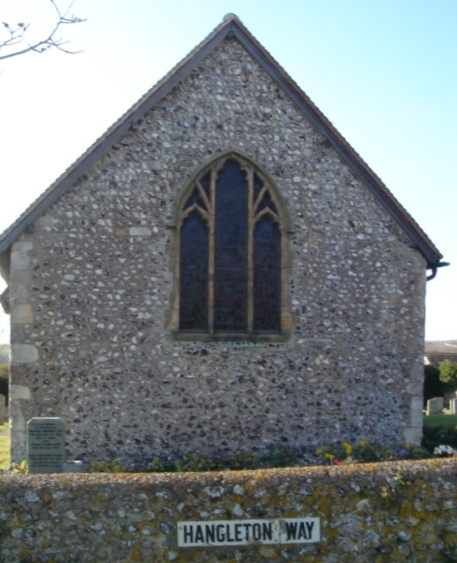 Three-light lancet window in the east wall of St Helen's Church, Hangleton, Brighton & Hove, England.